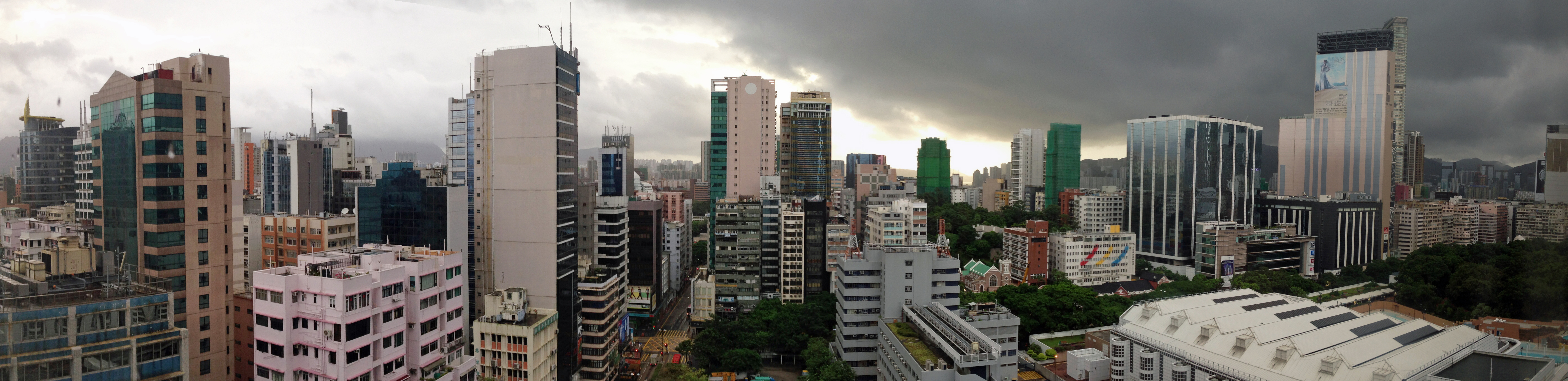 Looking west from the BP International Hotel in Hong Kong during Typhoon Utor on the morning of 14 August 2013.